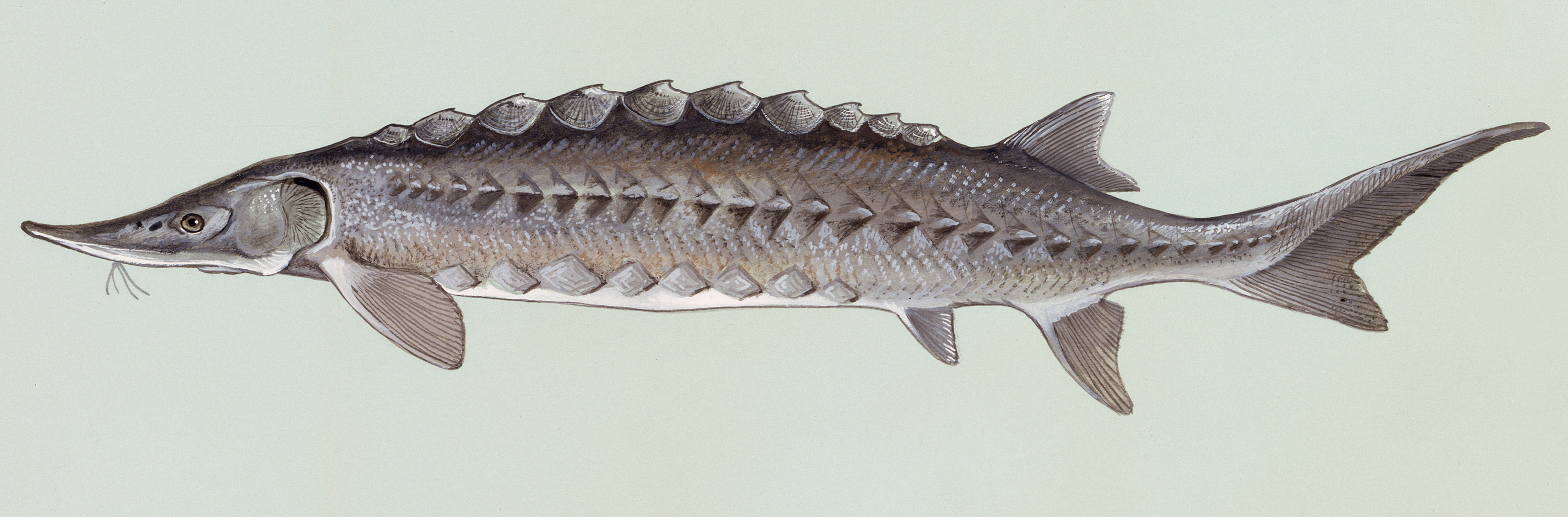 Atlantic Sturgeon, Acipenser oxyrhynchus. Scans of artwork commissioned by the Fish and Wildlife Service in the 1970's. Original art is kept at NCTC museum.